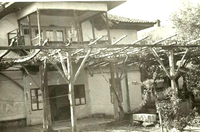 Vlajinac family house where once the editorial board of the formerly Vranjski newspaper